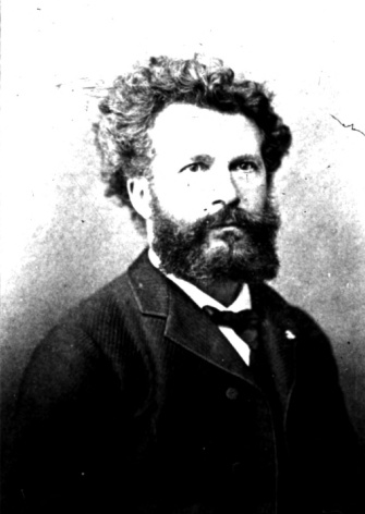 Photograph of the astronomer and psychical researcher Camille Flammarion.